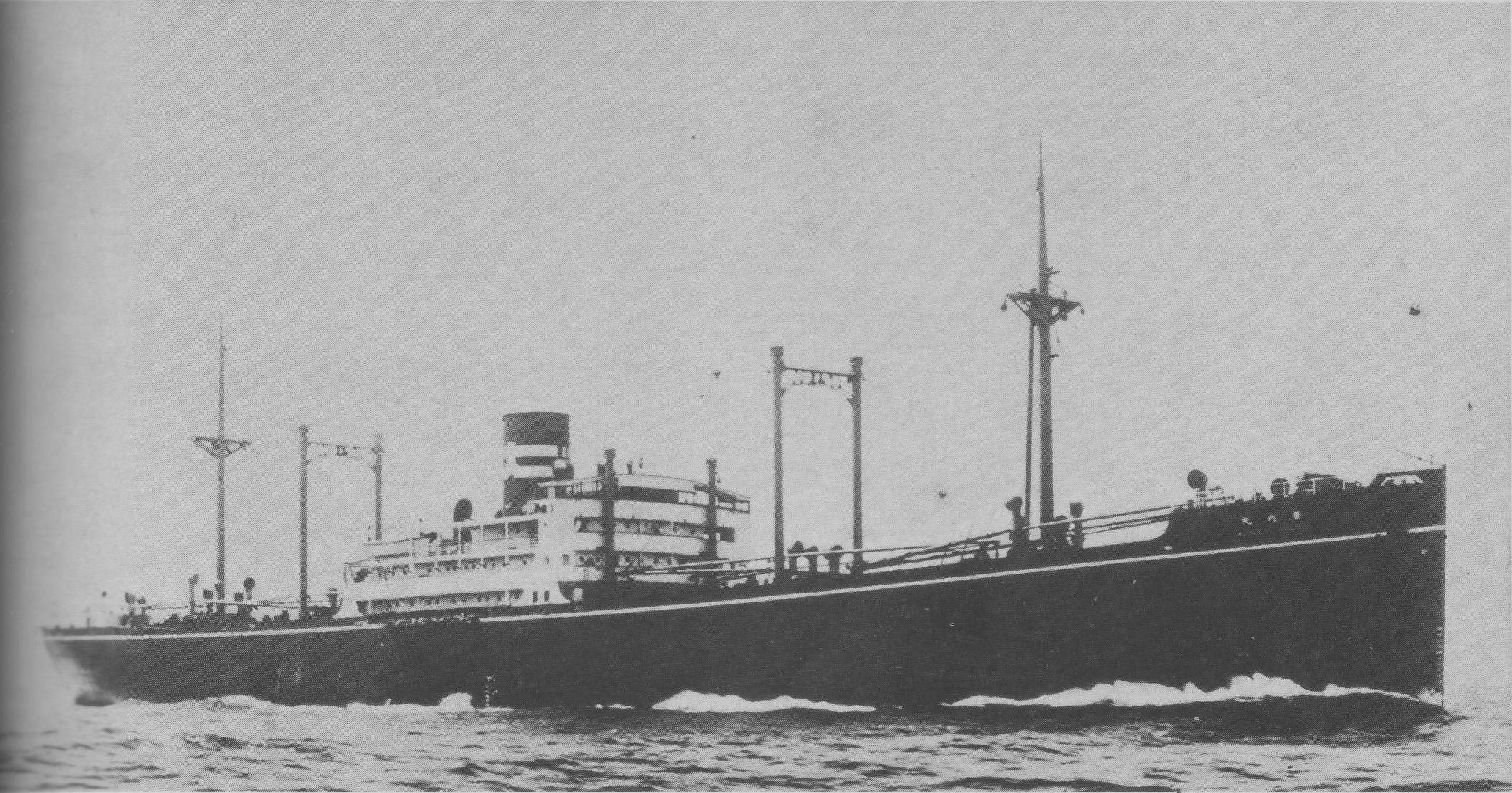 O.S.K. Line "Kinai Maru", Renowned as a fast cargo ship "New York liner"